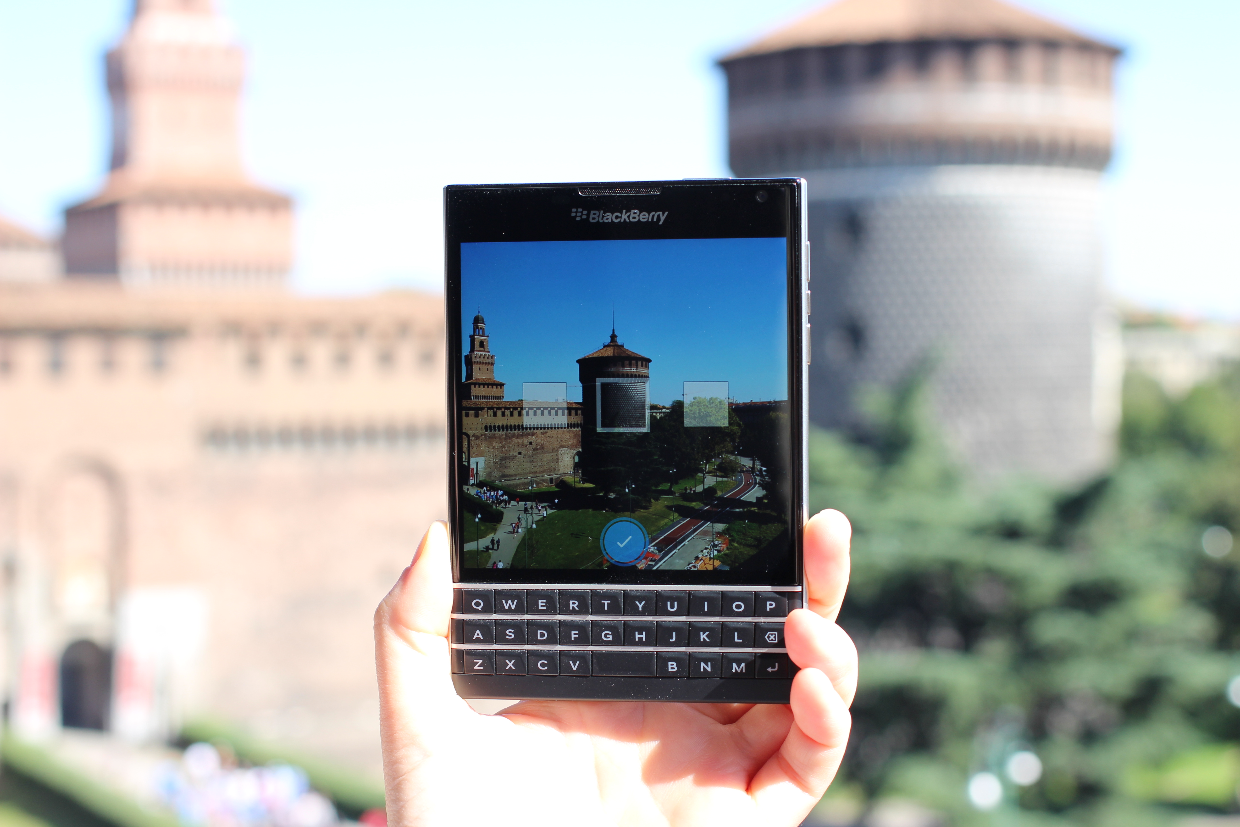 BlackBerry Passport new Panorama Camera Option